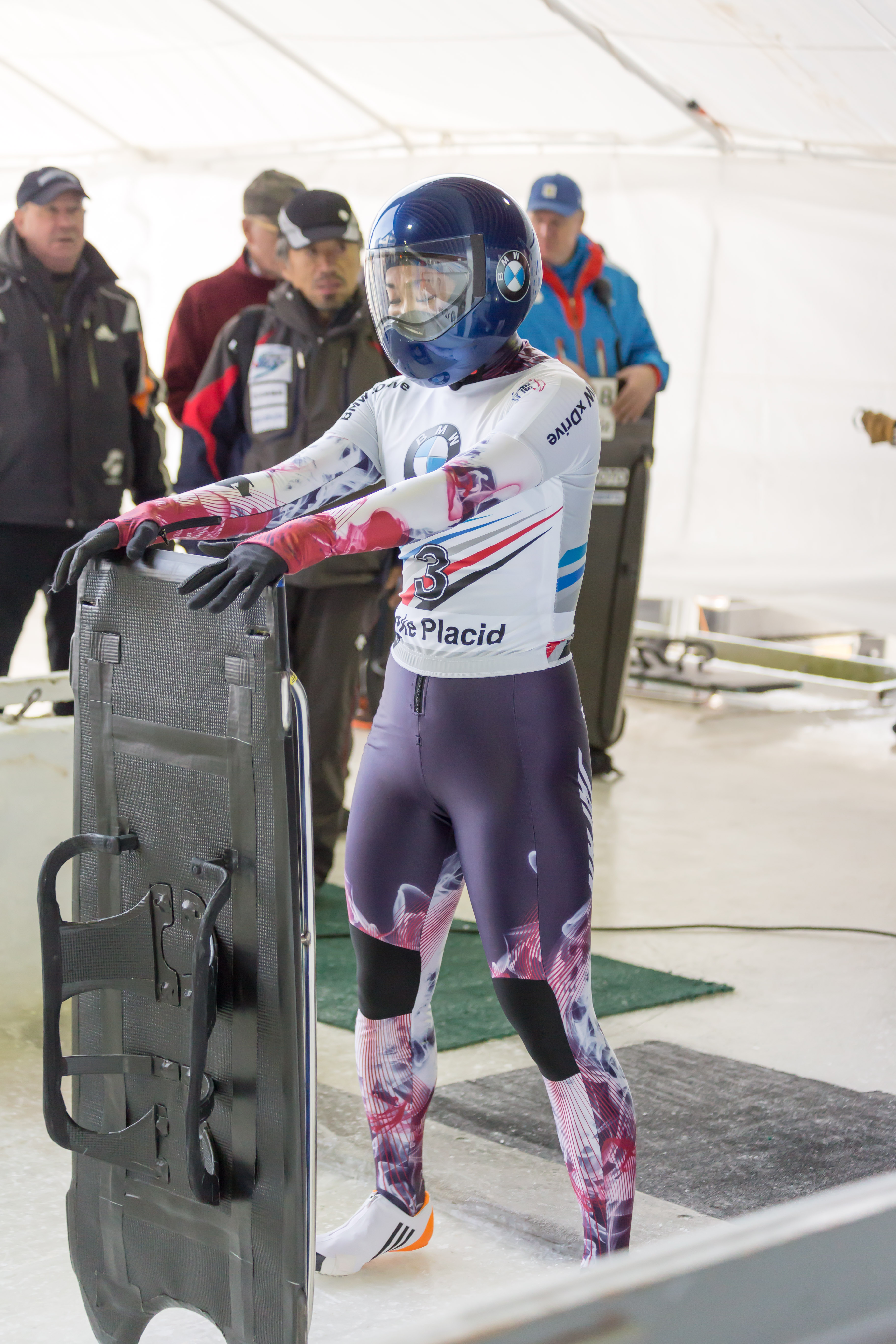 Takako Oguchi (JPN) is seen at the start area for her second run at the 2017/2018 BMW IBSF World Cup race at Lake Placid.